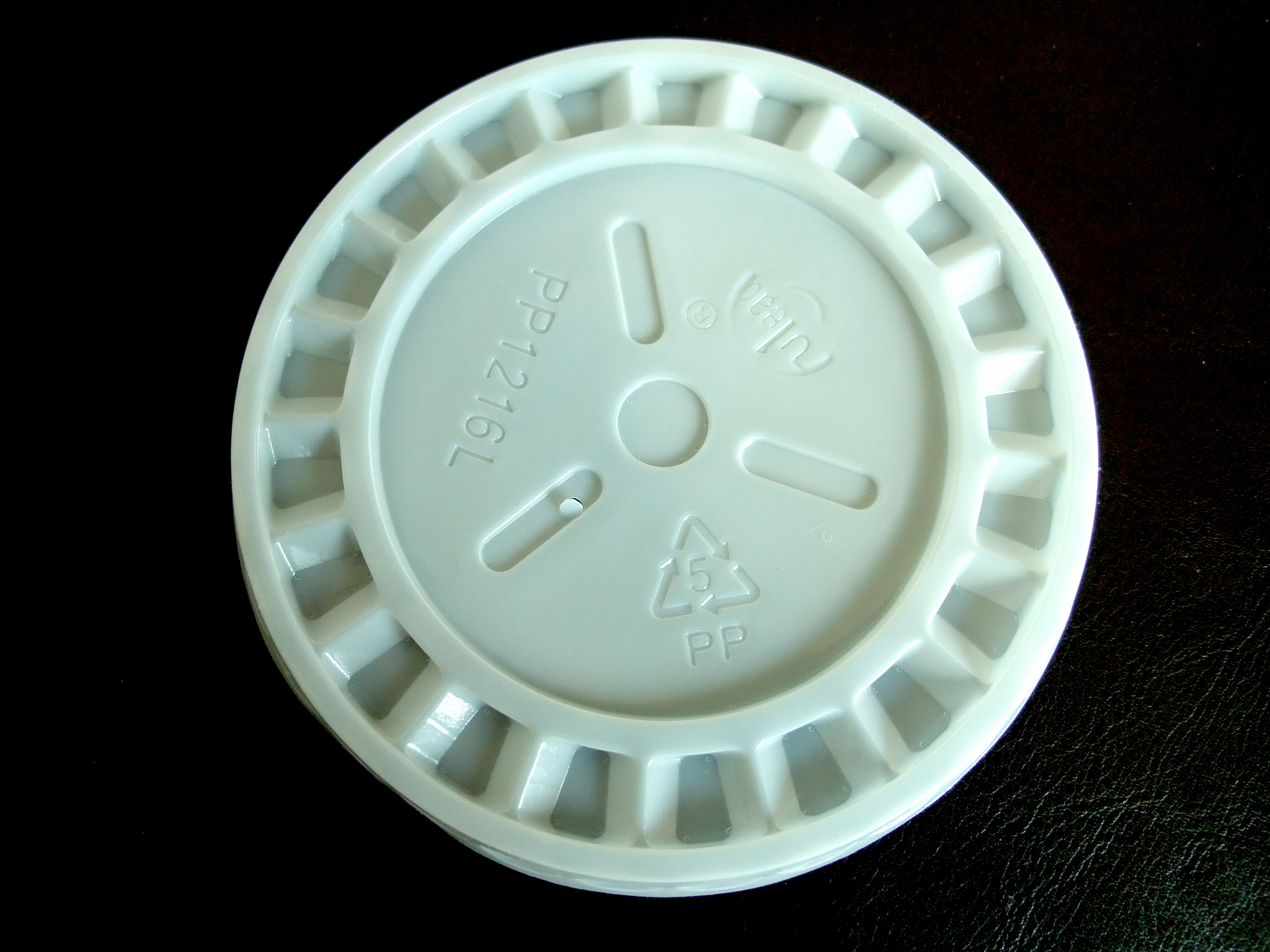 A disposable food container lid made of polypropylene